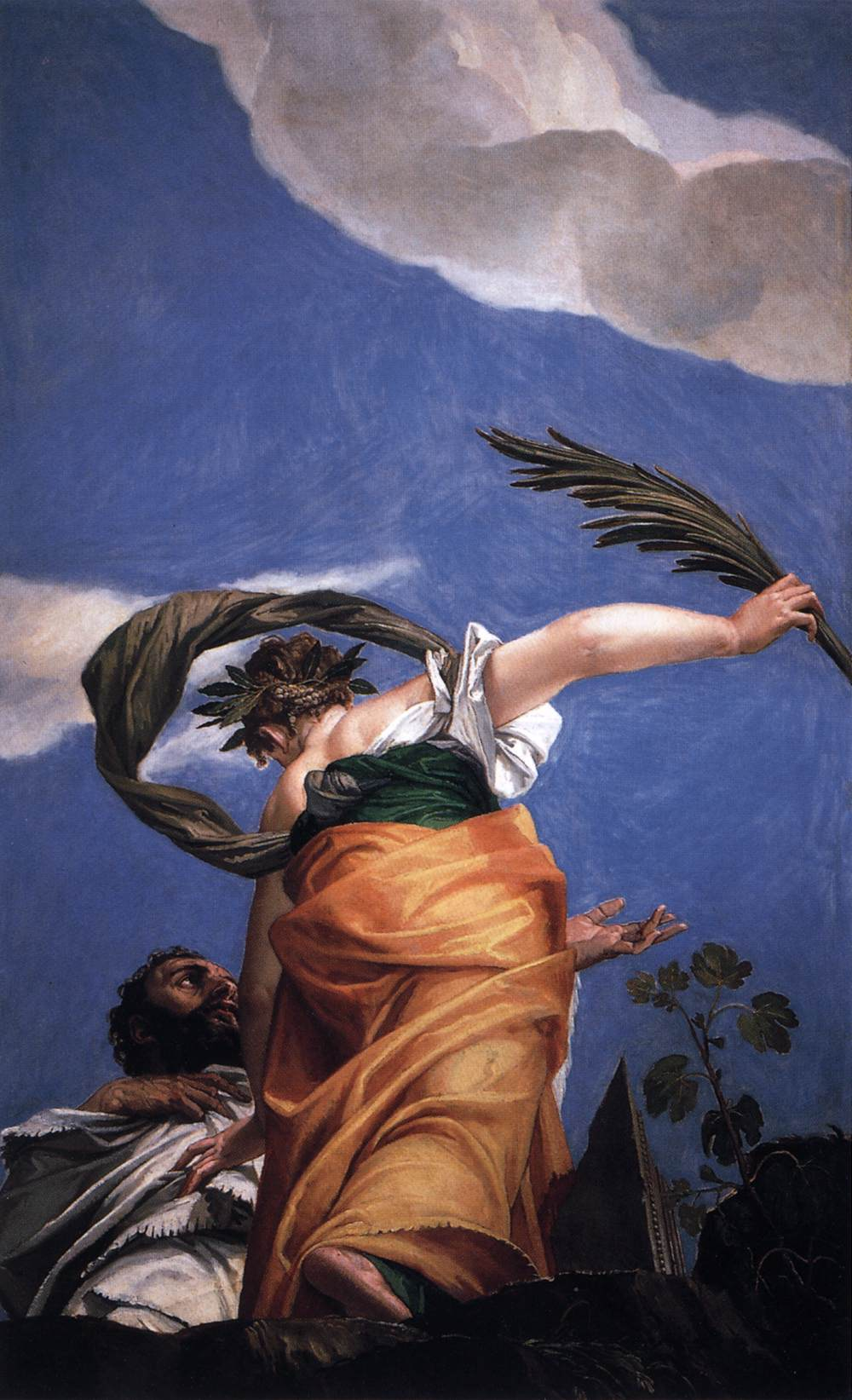 The Triumph of Virtue over Vice